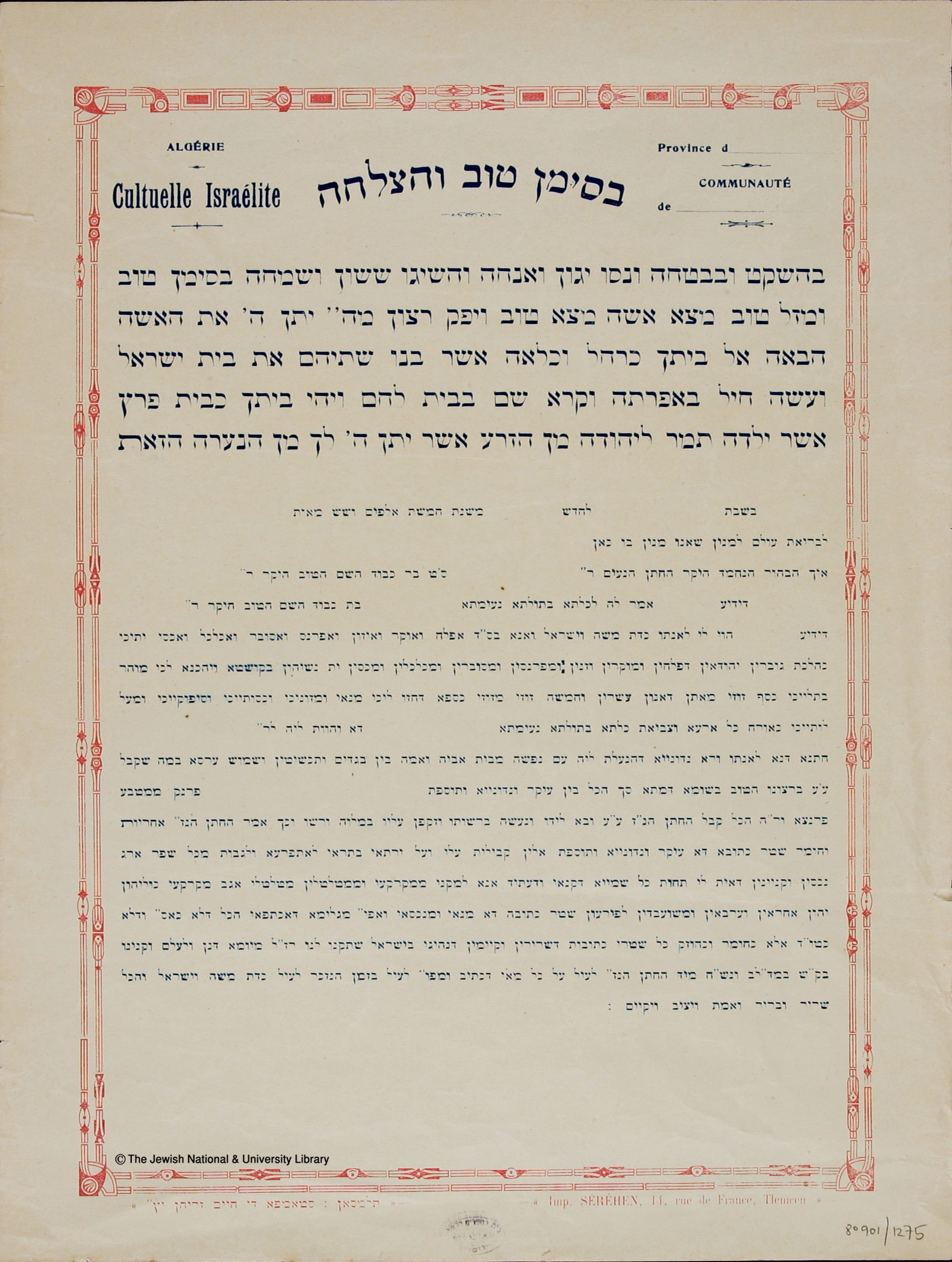 Ketubah from The Ketubot Collection of the National Library of Israel